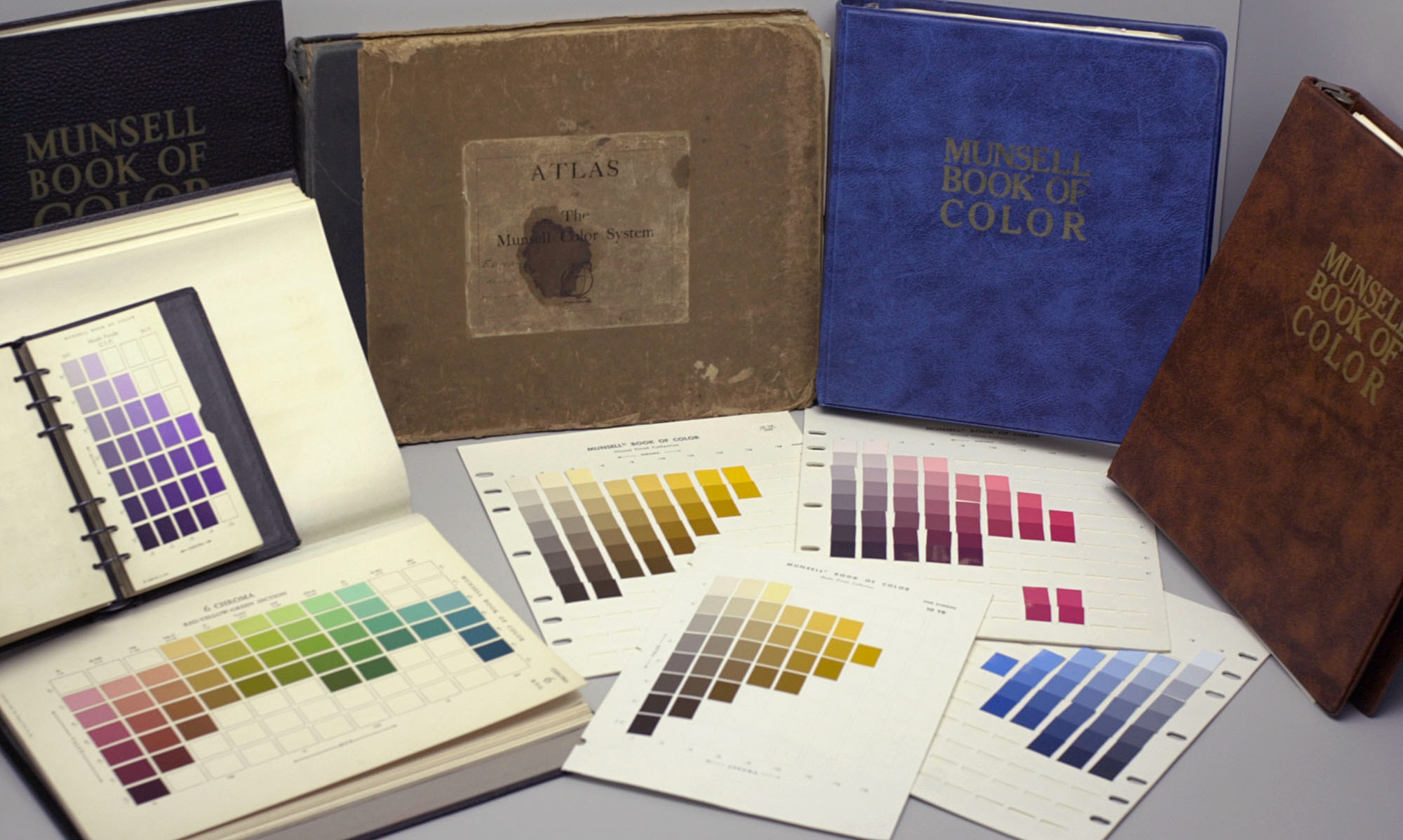 Several editions of the Munsell Book of Color, the color atlas of the Munsell color system sold by the Munsell Color Company, perched behind several of the book’s removable pages of color swatches.